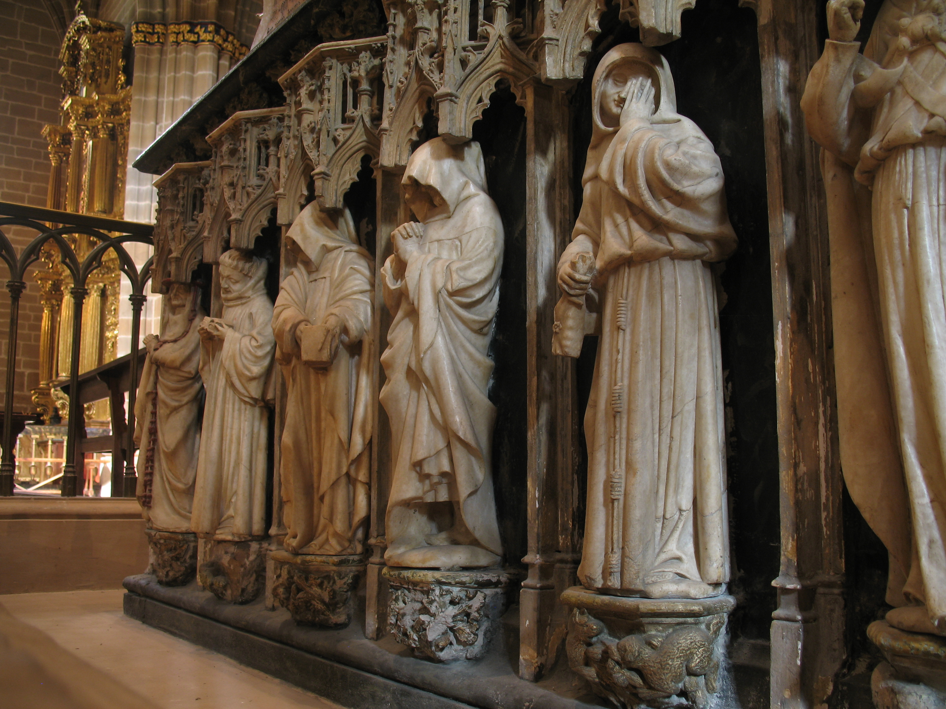 Detail of the tomb of Charles III of Navarre, by Jehan Lome de Tournai. Pamplona cathedral.